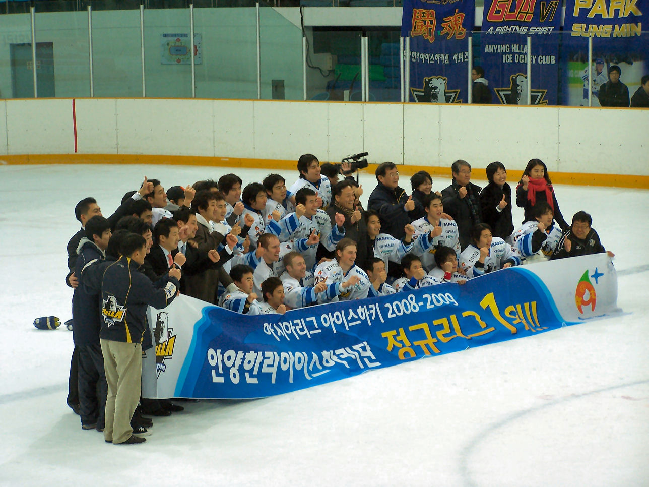 Anyang Halla celebrating finishing in first place for the first time in the Asia League Ice Hockey